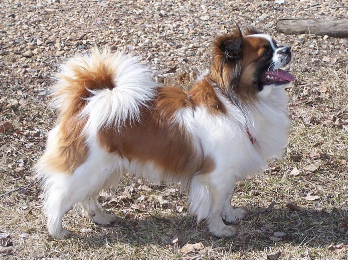 Buddy, a two year old particolor Tibetan Spaniel